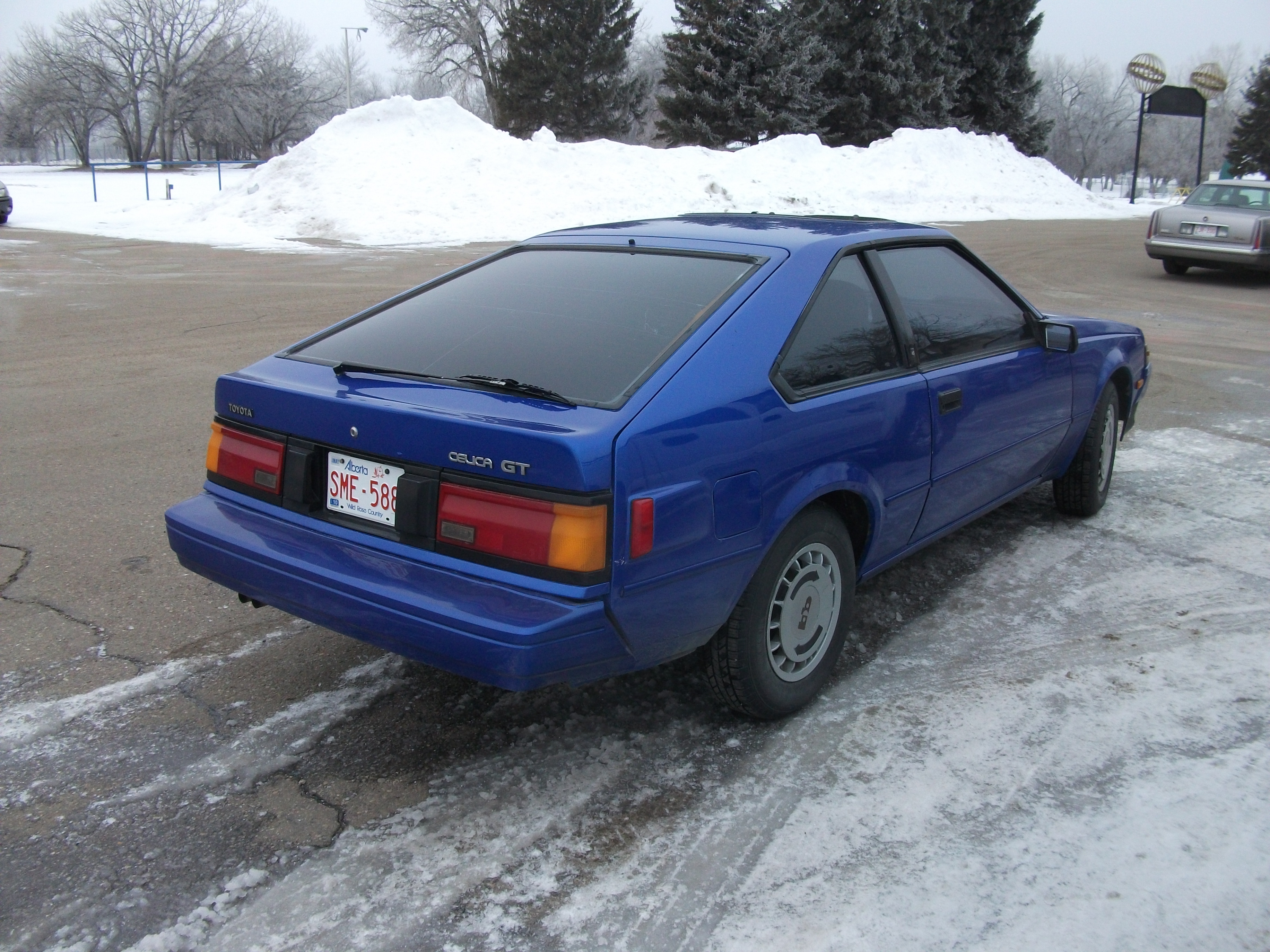 1984-1985 Toyota Celica GT Liftback (RA64) with interesting wheels and newer paint.